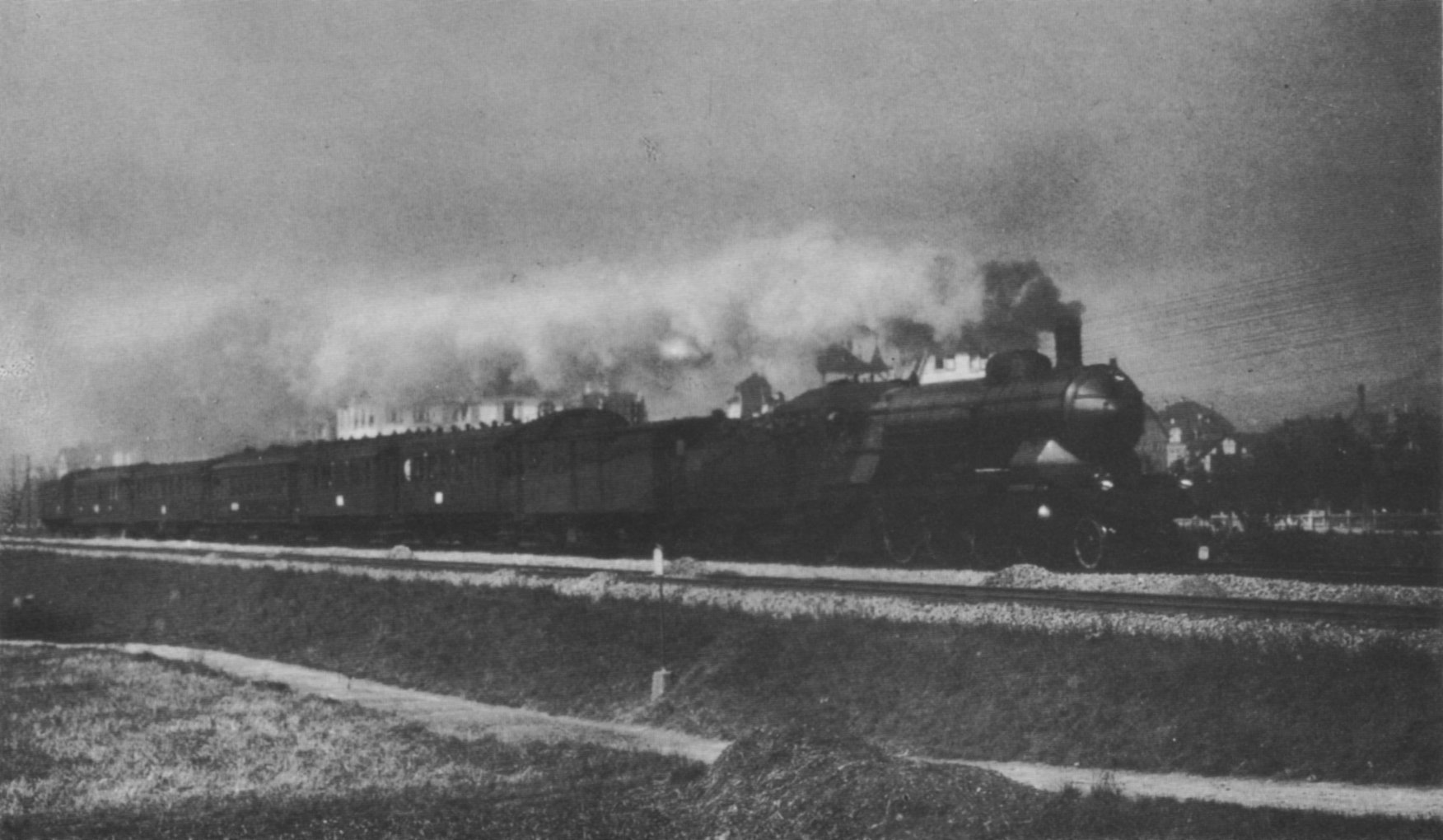 steam locomotive Württemberg C with Orient Express